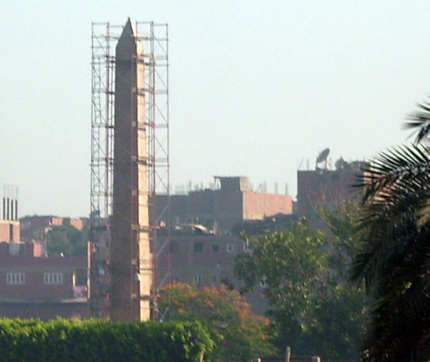 Masalla (Obelisk) of Senusret I- Al-Matariyyah (Heliopolis), Cairo